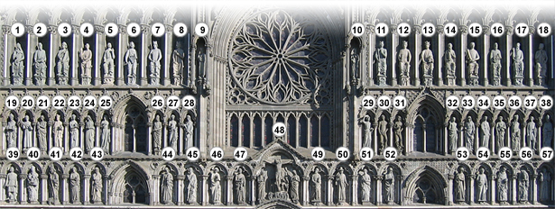 The screenfront of Nidarosdomen, Trondheim, Norway.